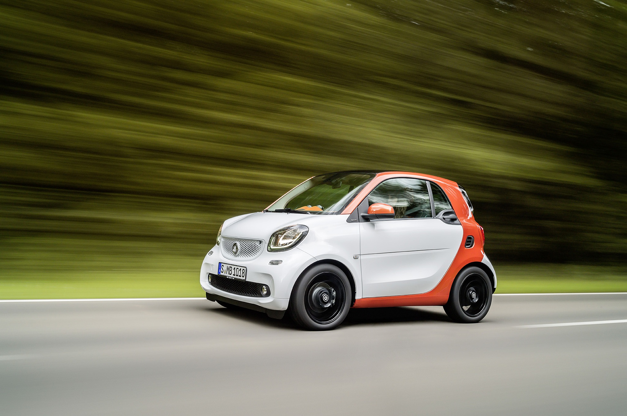 smart fortwo, BR C453, 2014 Bodypanels in white, tridion Sicherheitszelle in lava orange (metallic) Body panels in white, tridion safety cell in lava orange (metallic)